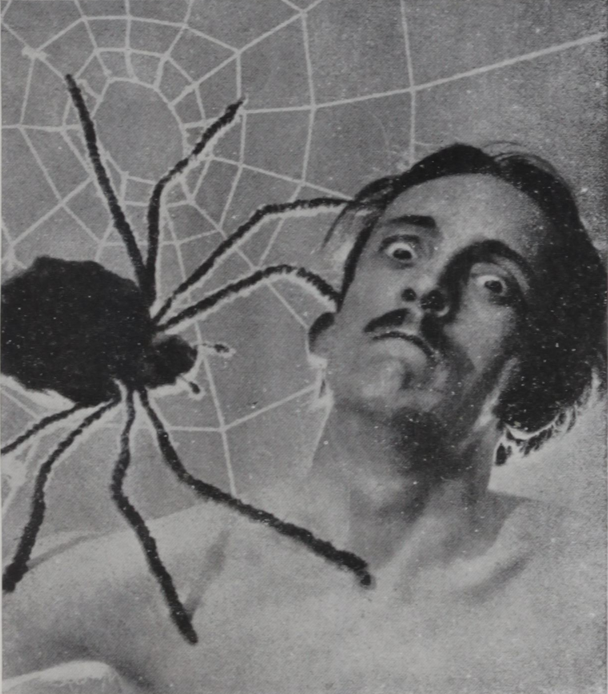 Title: Fear